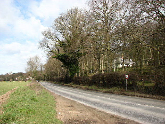 View north along the B1436 (Felbrigg_Road) between Felbrigg and Roughton